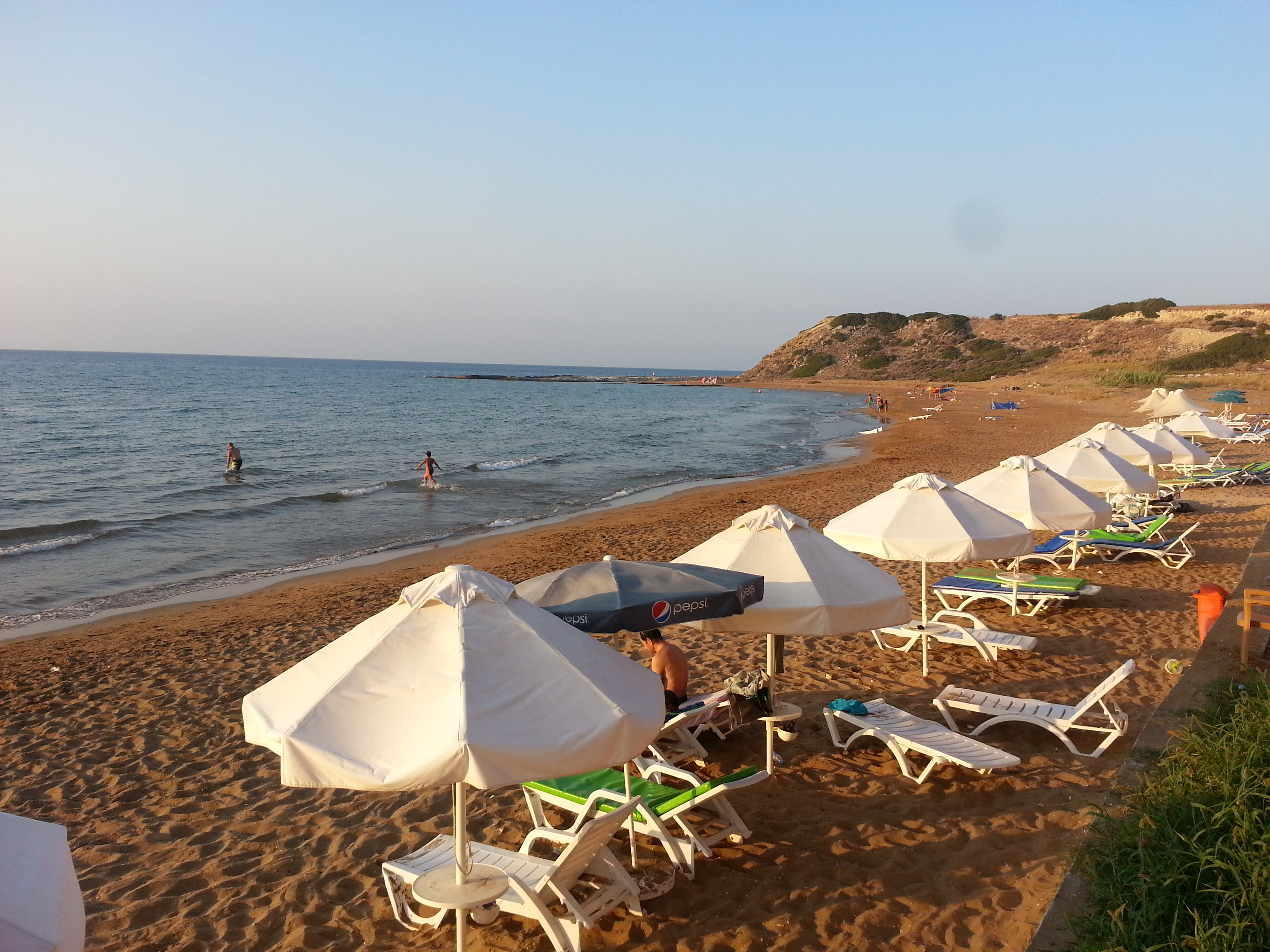 Kaplıca (Davlos) beach in Northern Cyprus. The beach is home to a hotel and a restaurant which attracts many tourists and Cypriots alike.